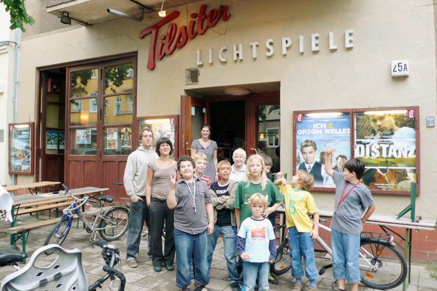 Children's cinema at the Tilsiter Lichtspiele in August 2010.